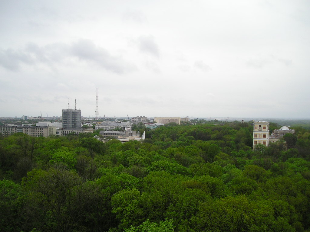 Panorama view of the city Gomel, Belarus.